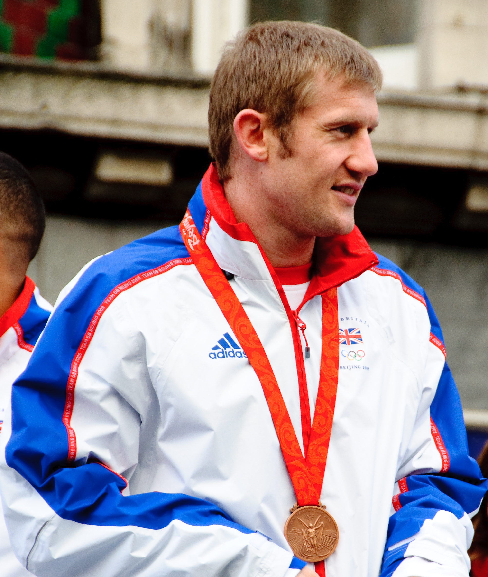 British 2008 Olympic boxing bronze medallist Tony Jeffries, Light Heavyweight.